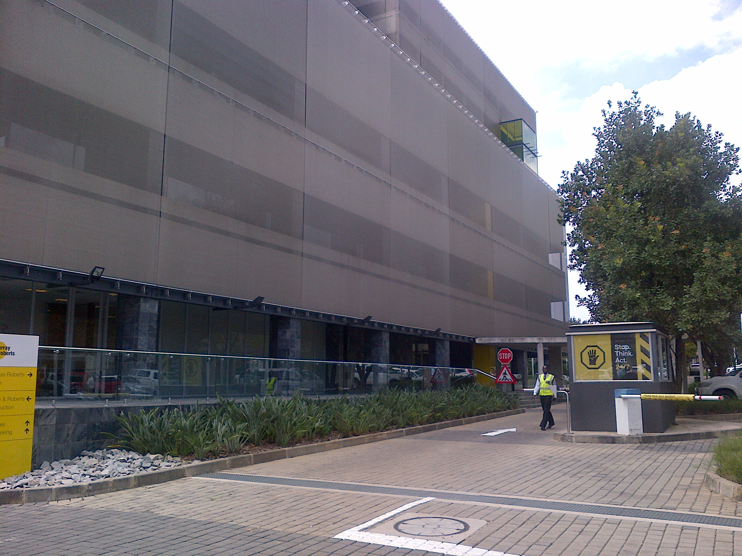 Murray and Roberts Cementation, Douglas Roberts Centre, 22 Skeen Boulevard Other information na